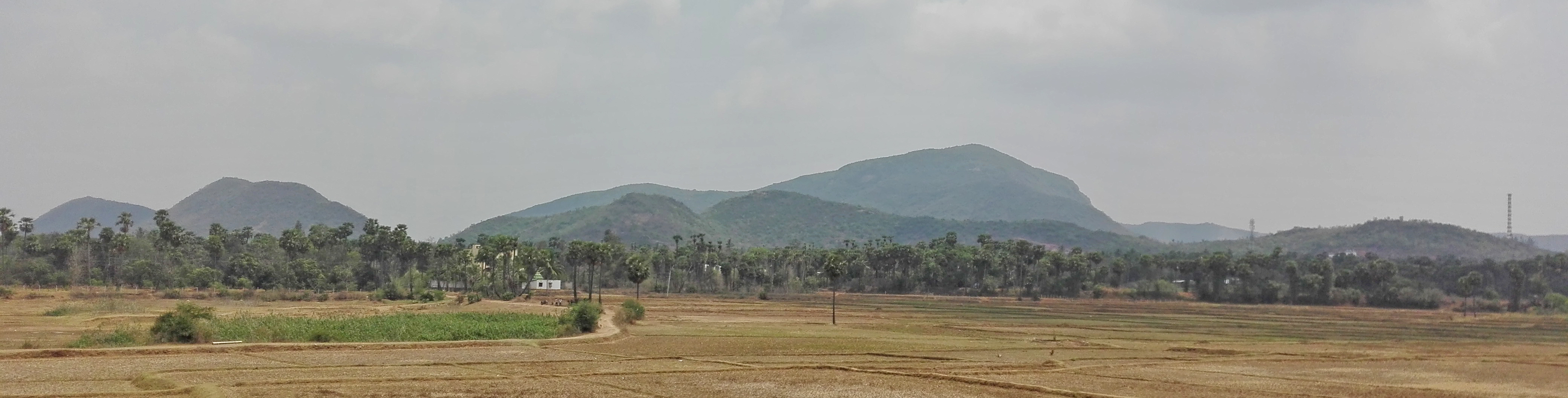 Panoramic view of Eastern Ghats near Kottavalasa in Viziangaram district